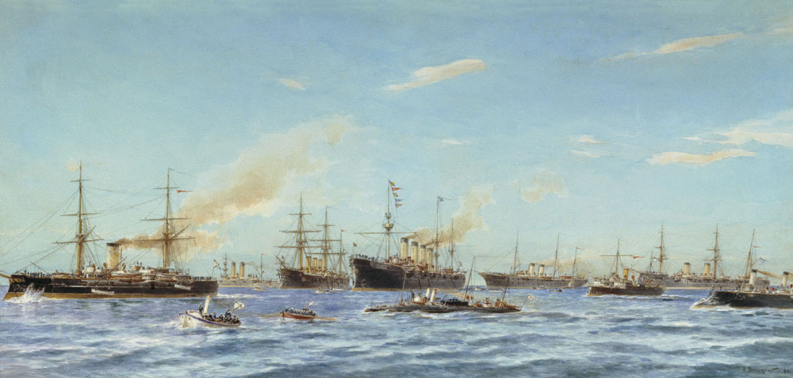 Alexander Karlovich Beggrov (1841-1914) Ships built in the years 1883-1896 in the Baltic Shipbuilding and Mechanical Plant in St. Petersburg by the ship's engineer N.E. Titov